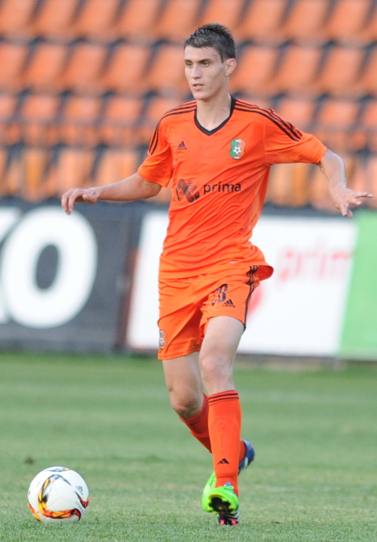 Plamen Galabov